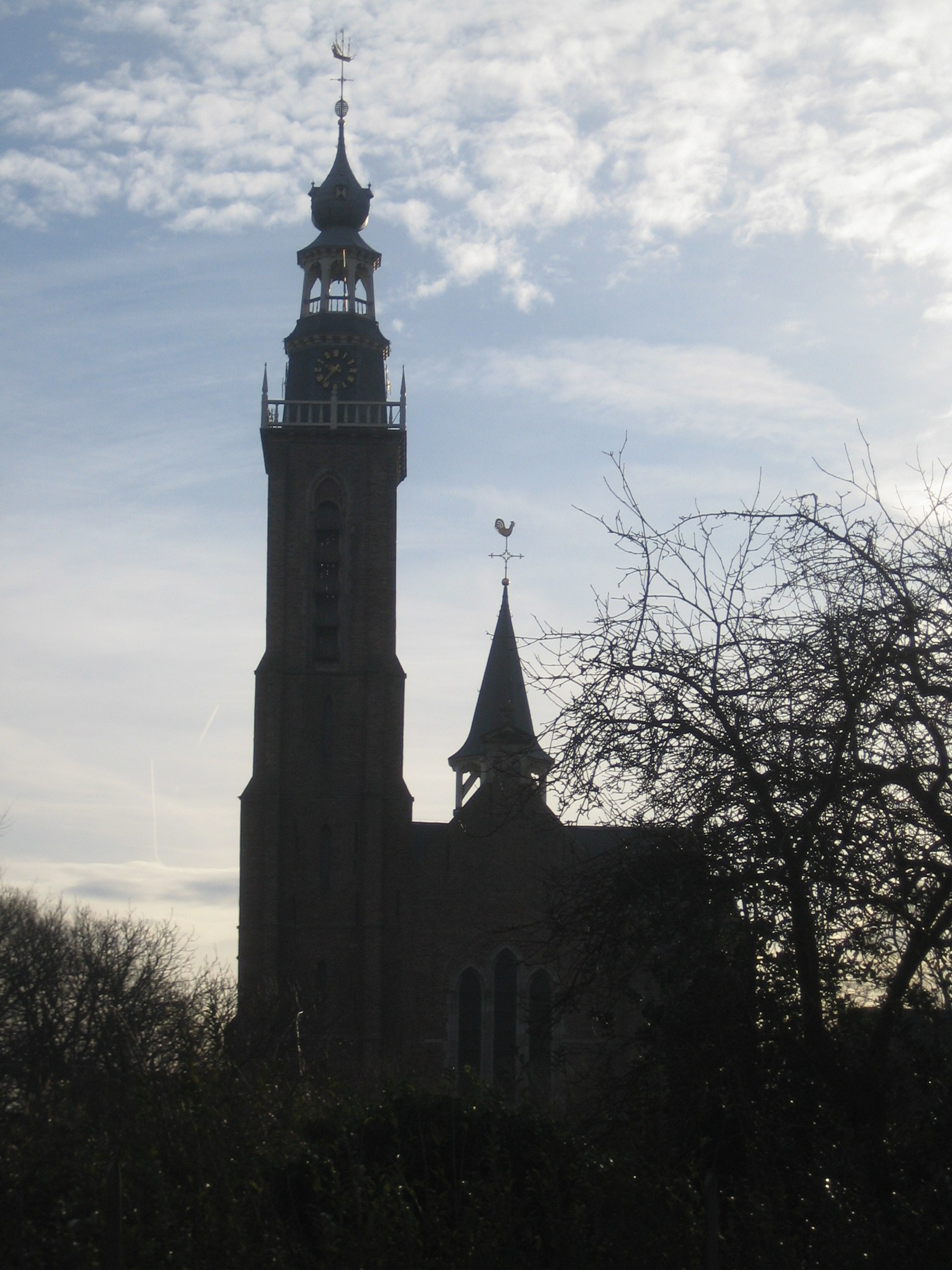 I took this picture myself in February 2007 and hereby release it into the public domaine to the maximum extent possible under all relevant jurisdictions.